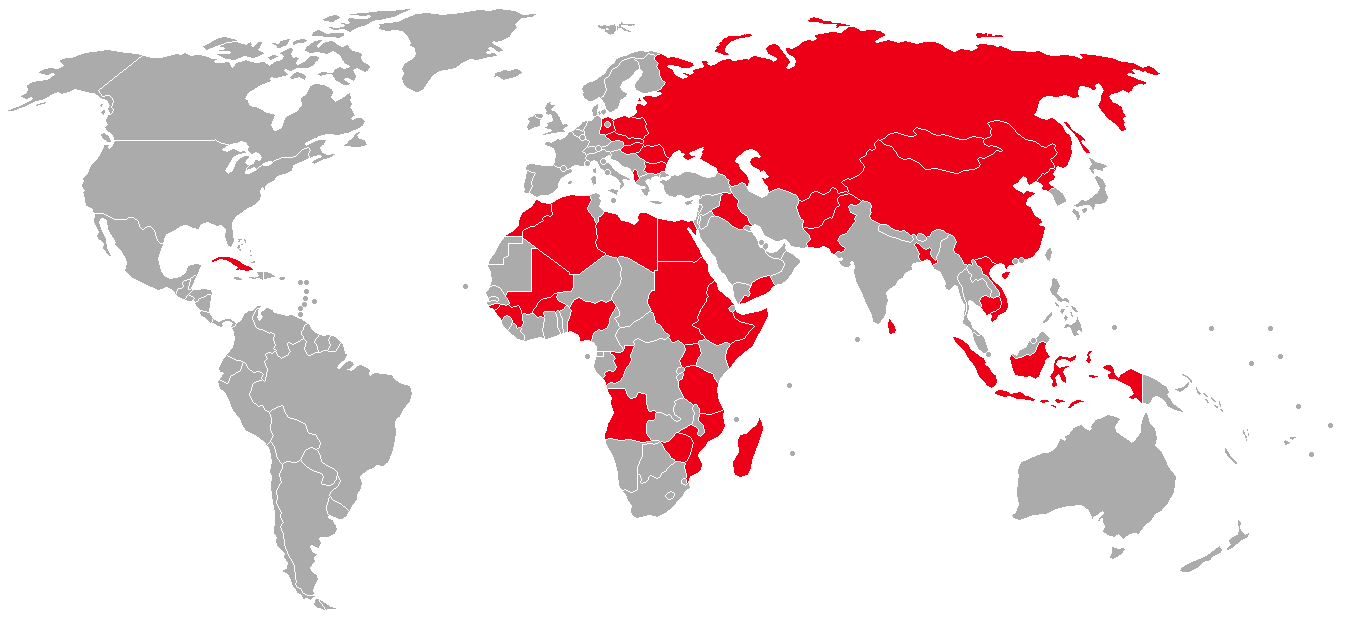 Mig-17 operators, based on list on Mikoyan-Gurevich MiG-17. Uses cold war map from Image:BlankMap-World-1985.png